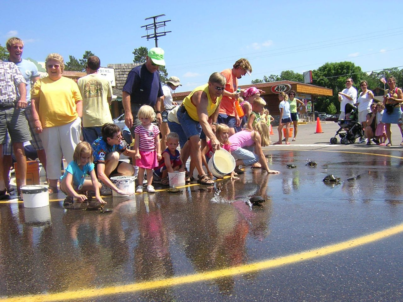 Turtle race in Nisswa, Minnesota.